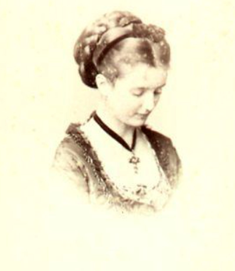 Julia Floersheim nee Baddeley wife of Louis Floersheim of Pennyhill Park, Bagshot